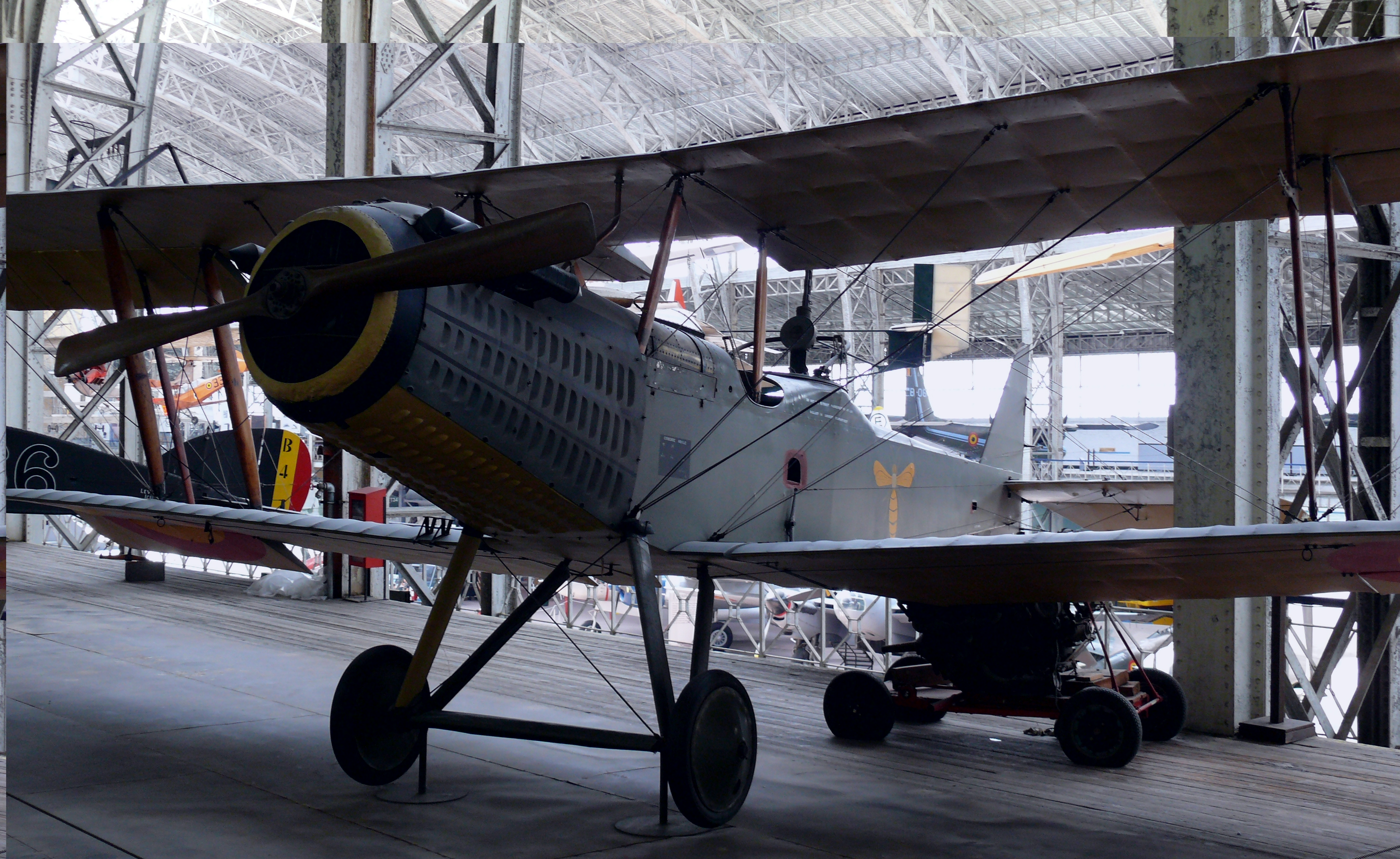 Royal Aircraft Factory R.E.8 (c/n 326) in the Royal Military Museum at the Jubelpark, Brussels.